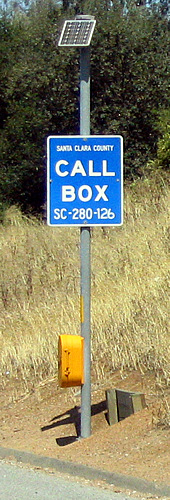 A typical California roadside callbox. This one sits next to the northbound lanes of Interstate 280 near Los Altos.